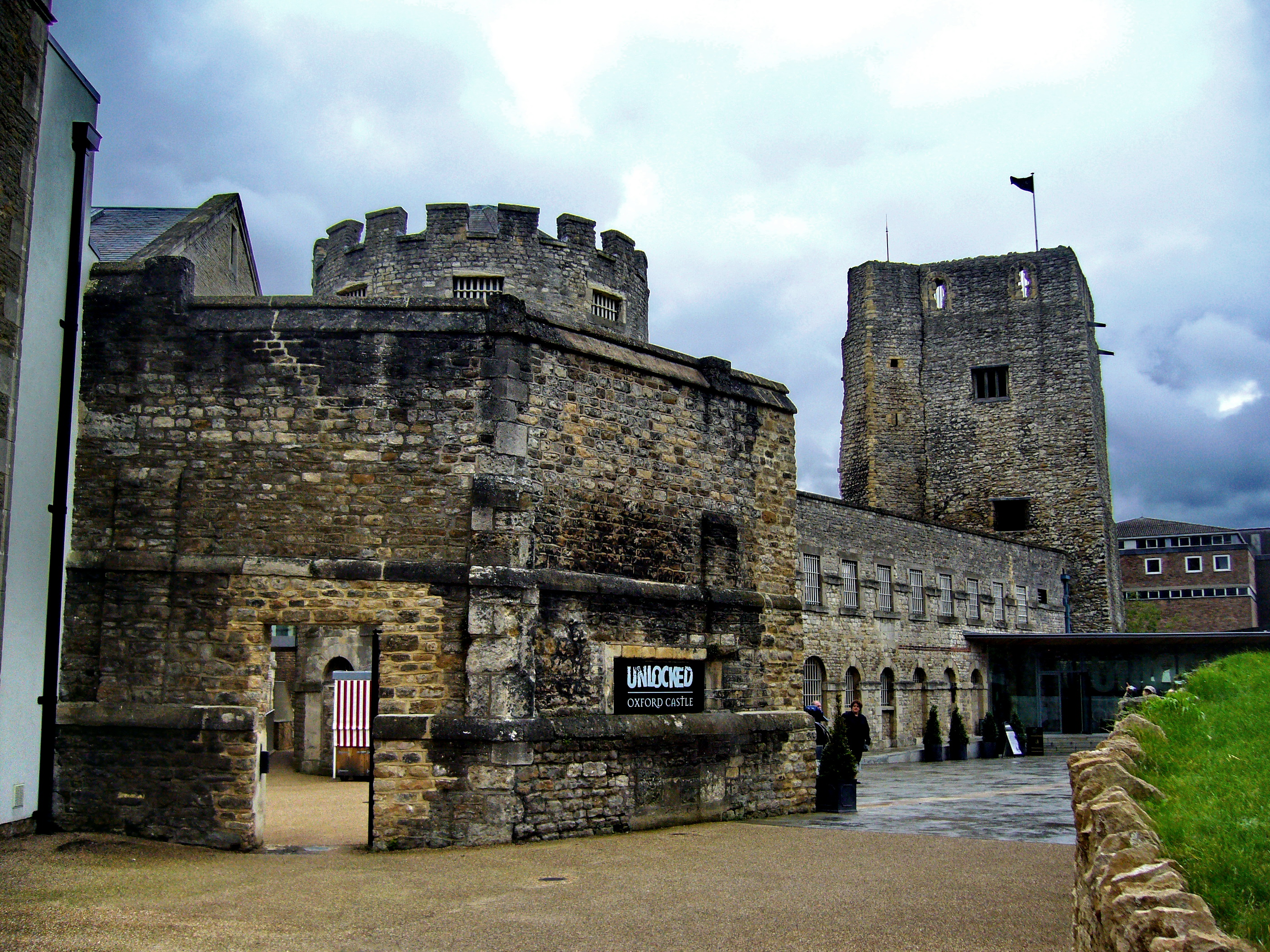 Oxford Castle